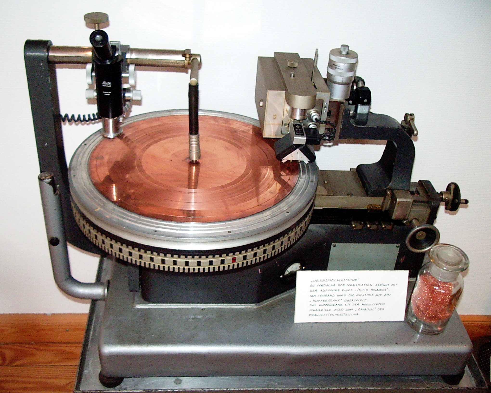 An early disc cutting lathe, probably and AM131 made by Neumann, Berlin in the early 1930s, shown here with a DMM master disc. TheDirect Metal Mastering process (DMM) was developed by TELDEC for manufacturing the master disc of vinyl records. The glass at the bottom right of this photo contains the chip or "swarf", which was cut off during the cutting process of copper masters (normally unbroken, finally with the complete length of the cut groove- the particular challenge of this special dmm-process). Own photograph of a device in the TelDec Museum, Nortorf. (Note: TelDec is a joint company of Telefunken and Decca founded in 1950)